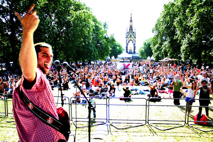 Joe Driscoll in Hyde Park